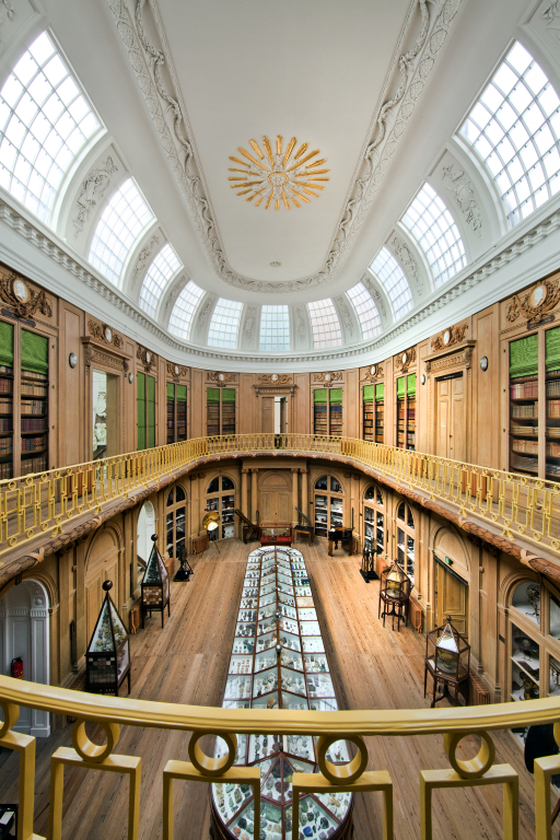 The Oval Room of Teylers Museum (1784), Haarlem, The Netherlands.